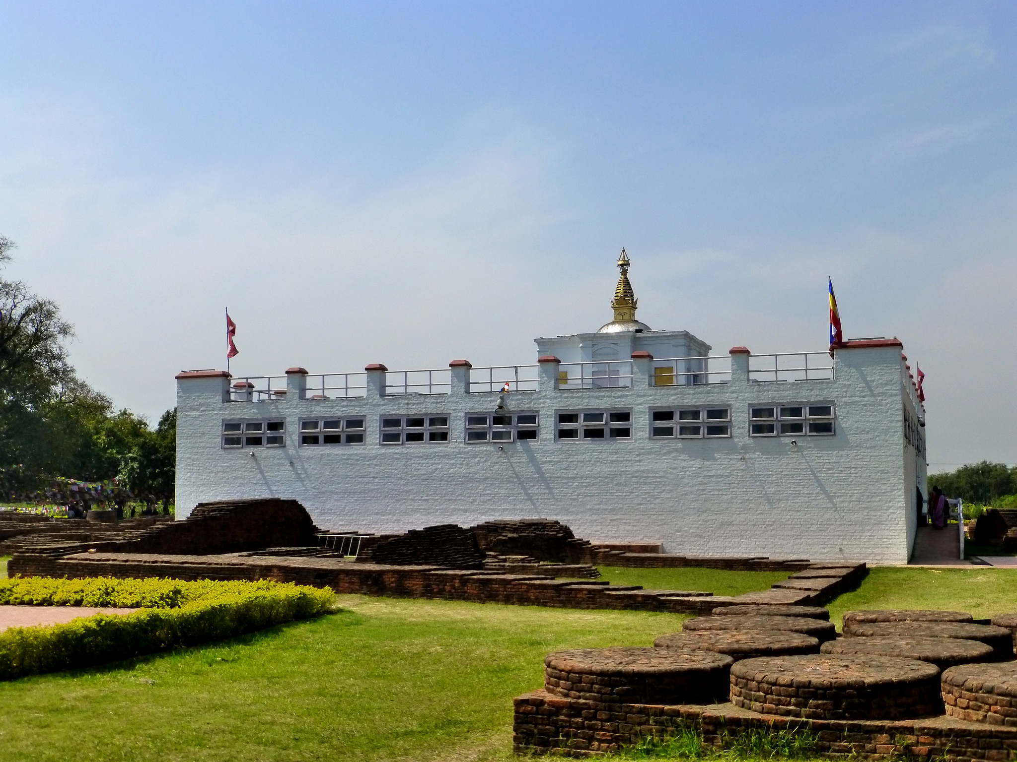 It is the Mayadevi Temple where Lord Buddha was born.